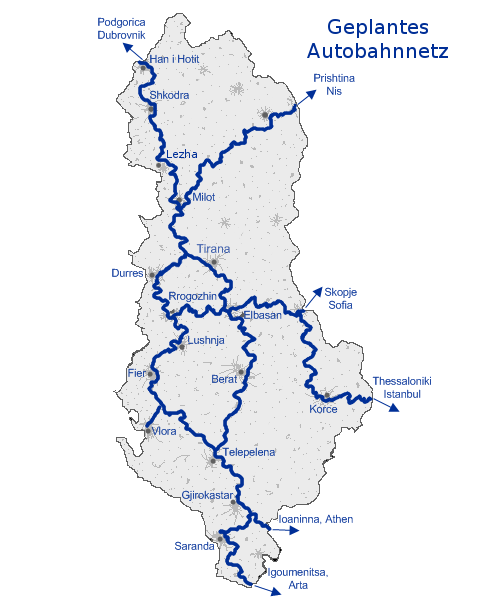 Planned highway network of Albania